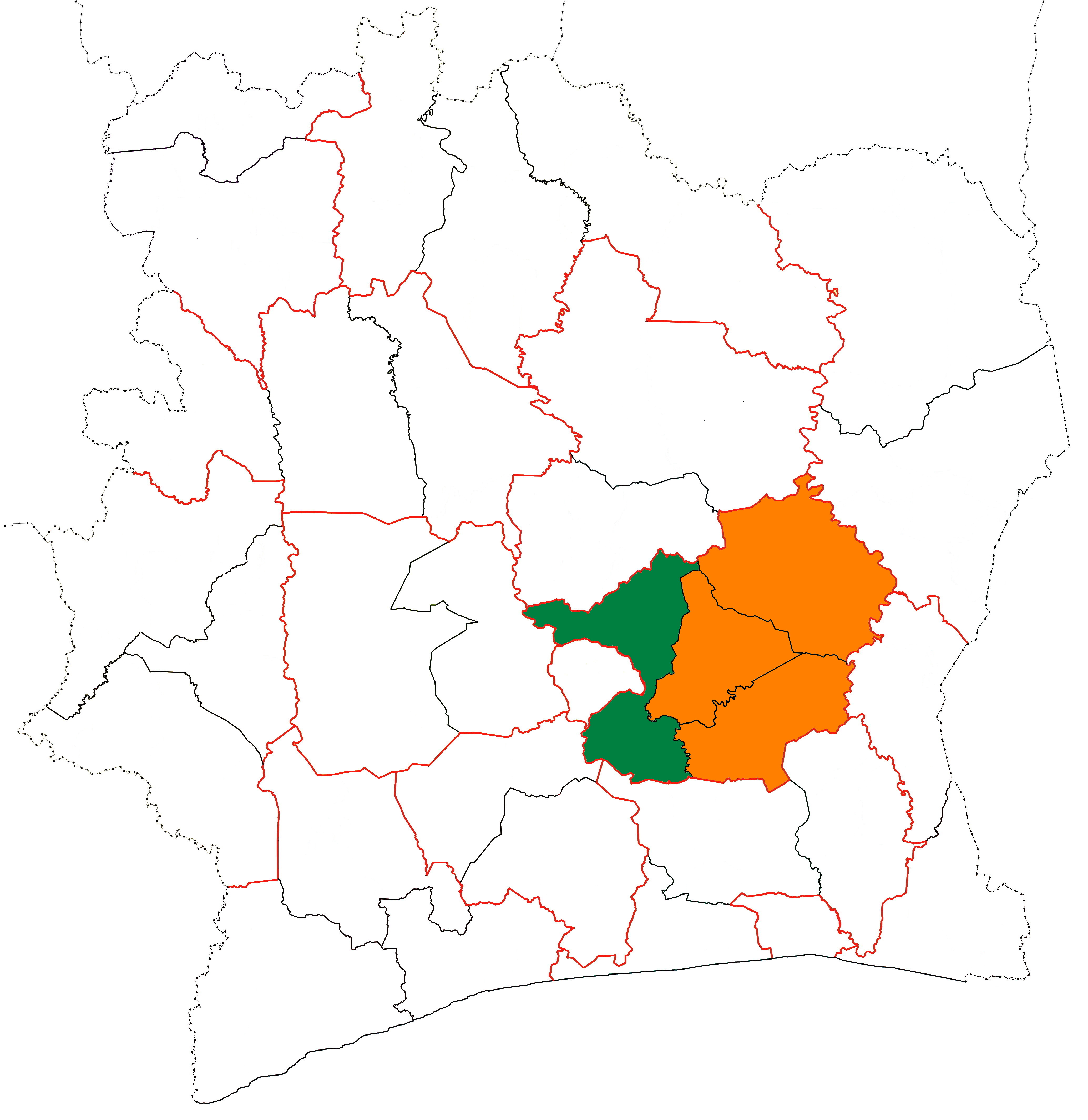 The location of Bélier region (green) in Côte d'Ivoire. The other shaded areas represent the other parts of Lacs District.